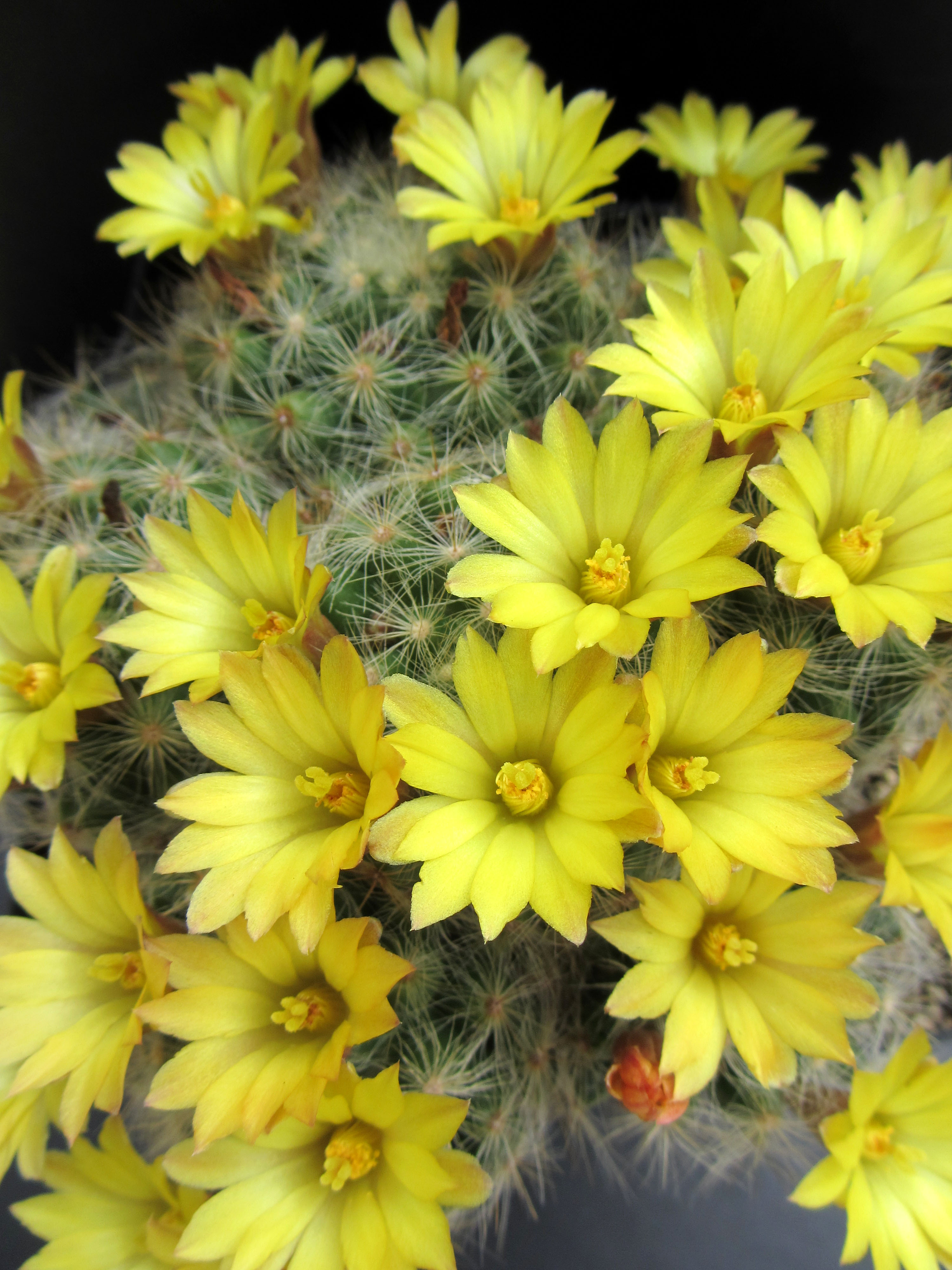 Mammillaria baumii